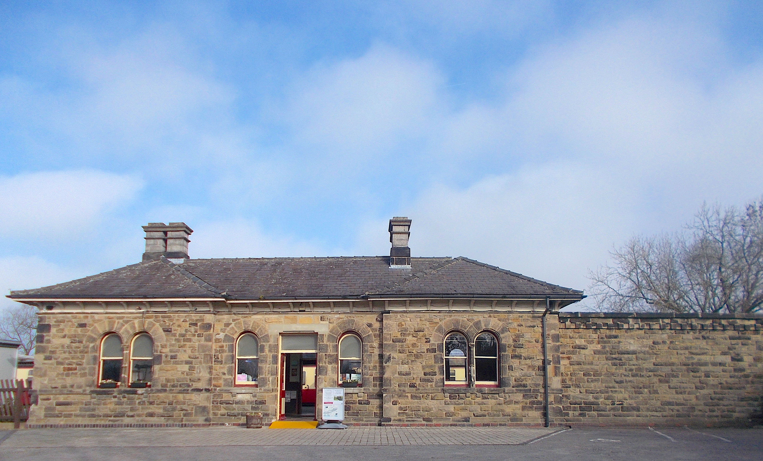 The restored station building at Butterley